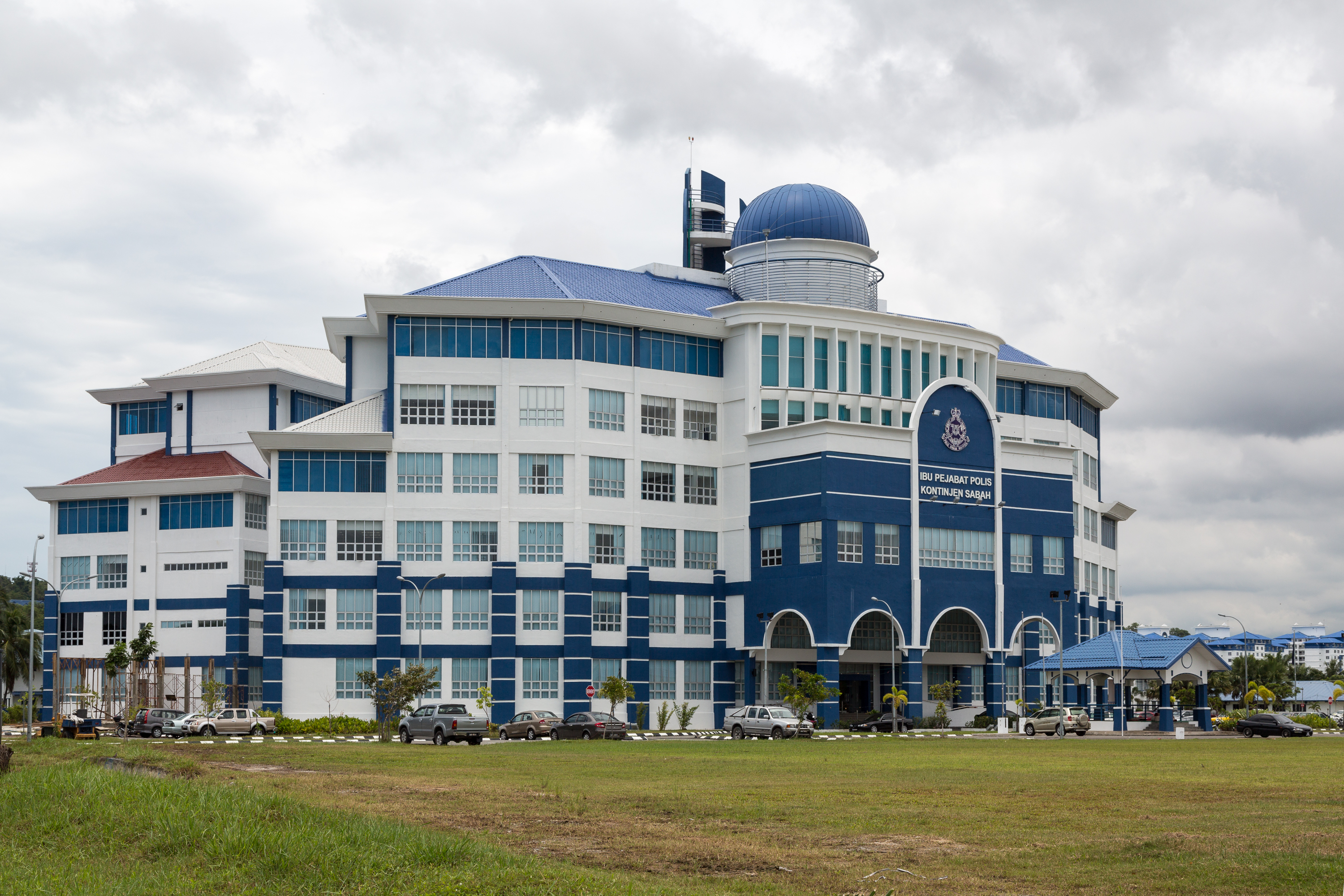 Kota Kinabalu,, Sabah: Police Headquarters / Ibu Pejabat Polis